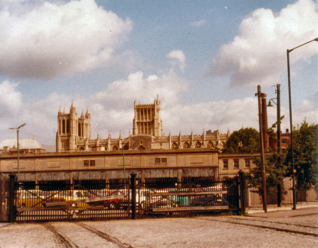 Canon's Marsh goods station and Cathedral Already closed at the time, the station has since been swept away swallowed by the @Bristol development. The position is a best guess.